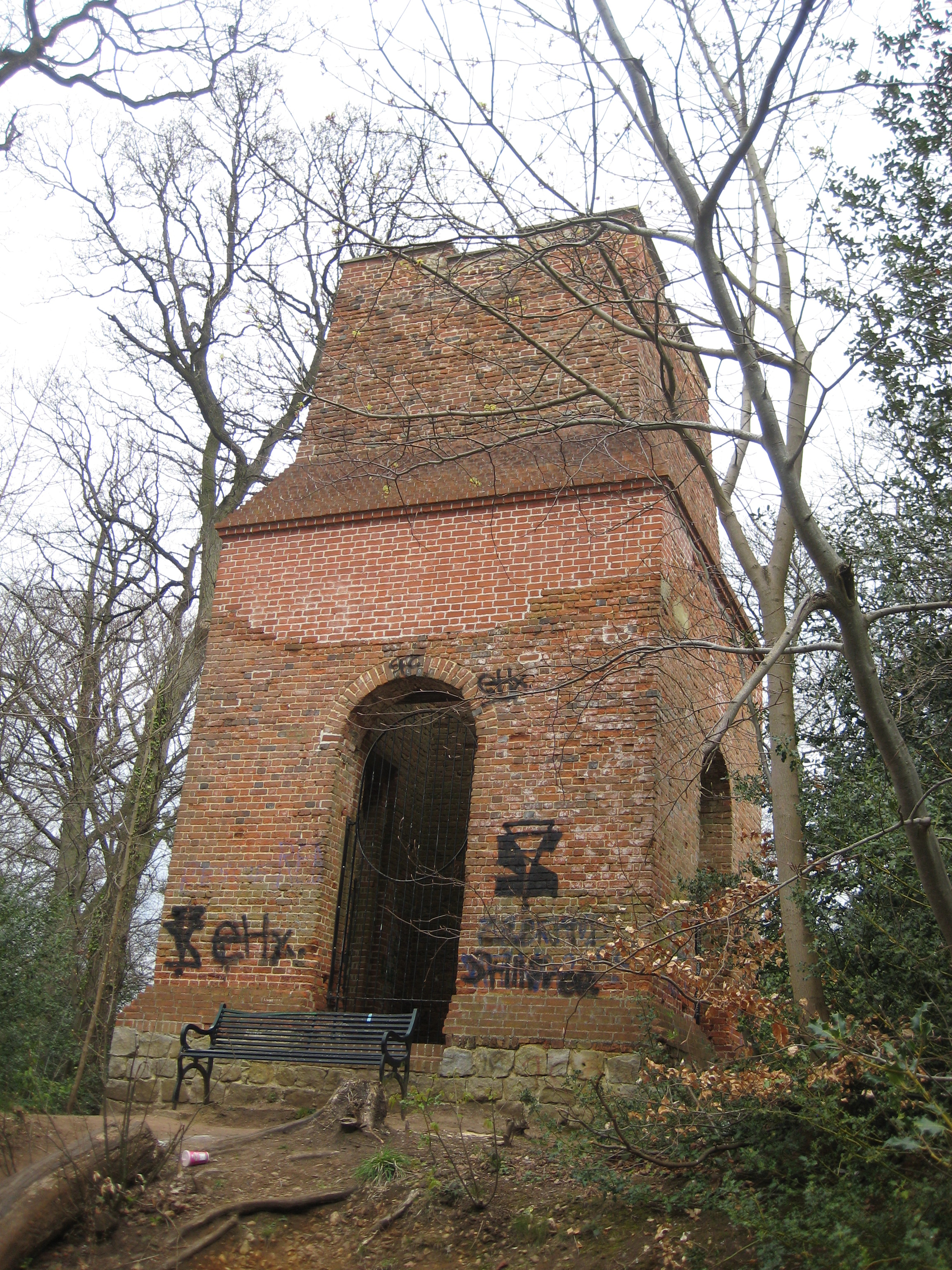 View of Norris's Obelisk (also known as Norris's Whim or the Camberley Obelisk), Camberley, Surrey. This is a brick tower built by John Norris of Hawley Place in about 1765-1770, on top of a hill in what was to become the town of Camberley. The top section of the tower was destroyed by fire in the early 1880s.